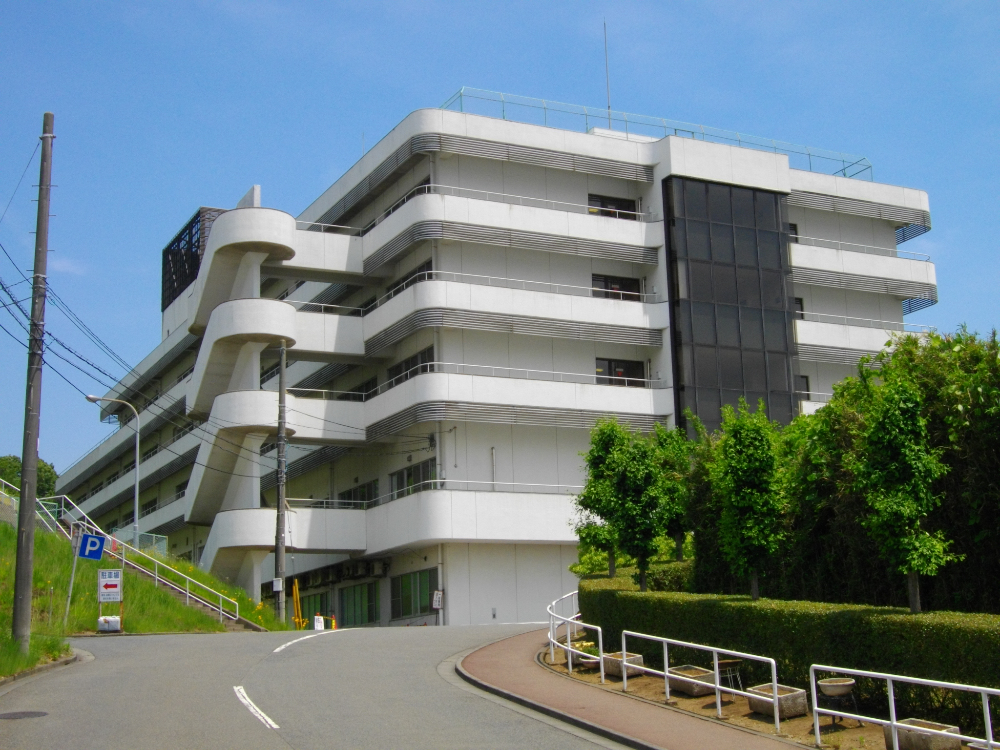 Tokai University Oiso Hospital